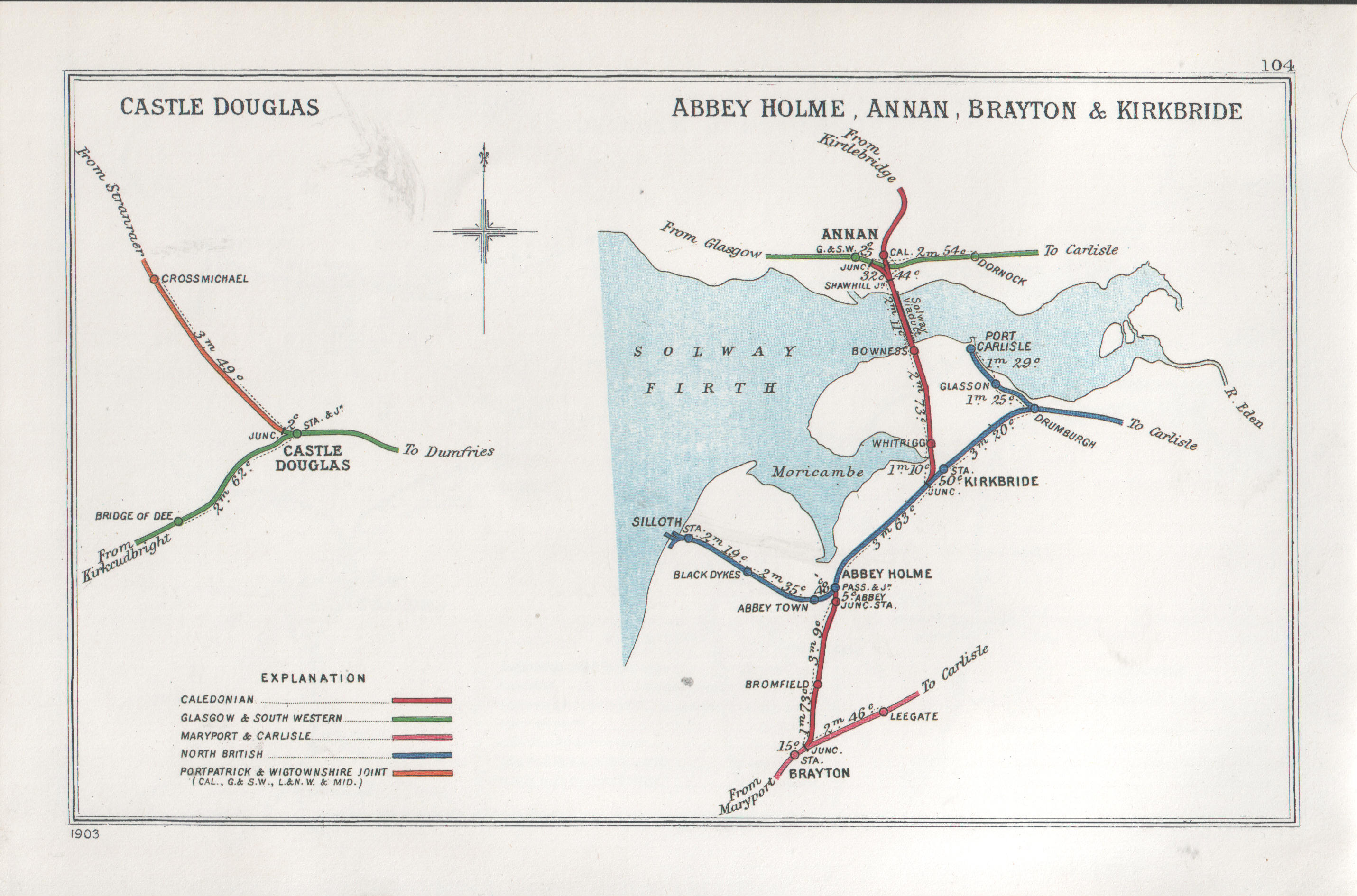 Pre Grouping railway junction around Castle Douglas; Abbey Holme, Annan, Brayton & Kirkbride